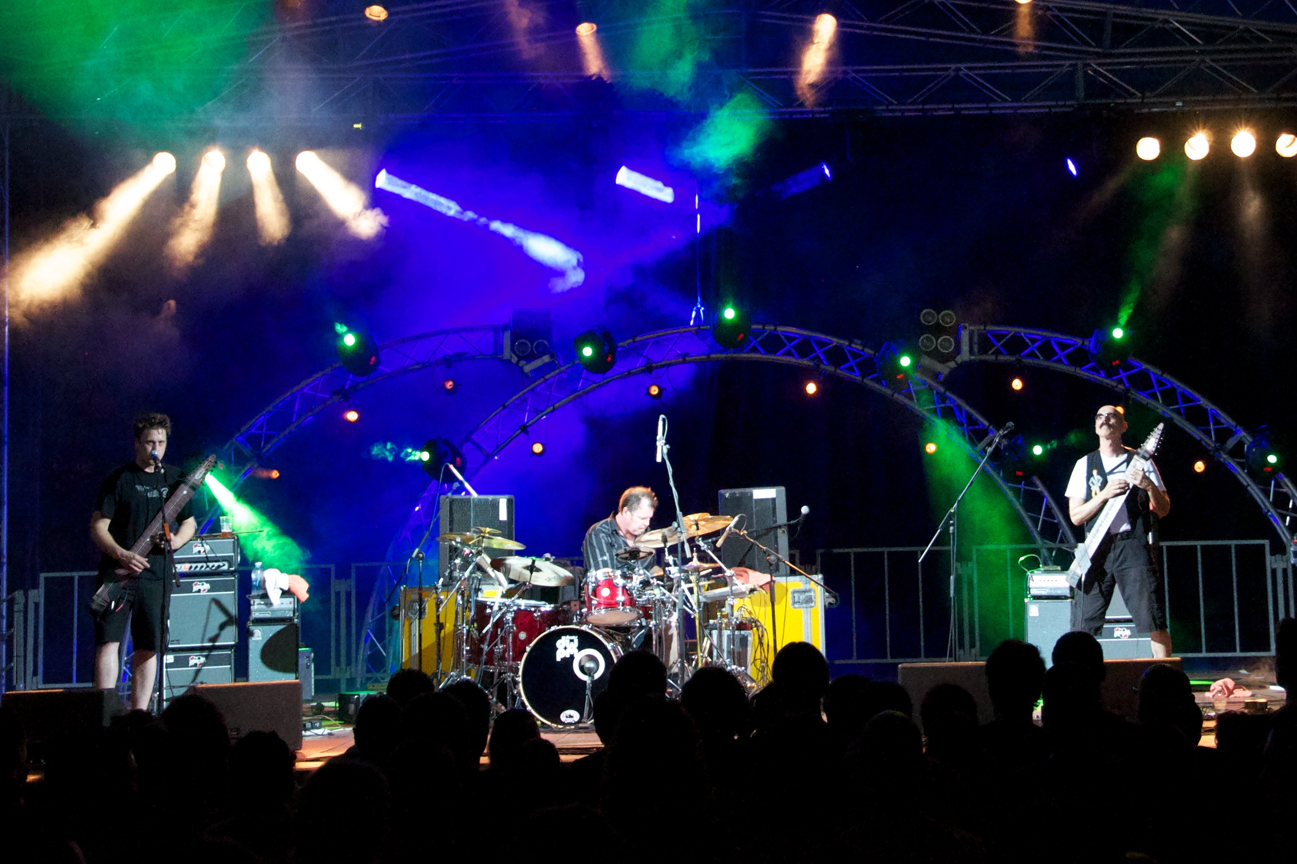 Tony Levin Band in performance during Festa della Birra in Misinto (MB) Italy